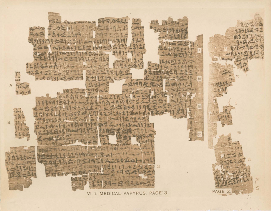 Papyrus Kahun VI. 1, pages 2 and 3; medical papyrus 12th Dynasty